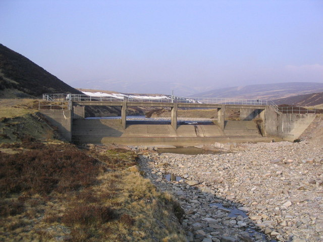 Bruar non-Water (3) below the dam Just a river bed! With no normal flow the river bed will be scoured only when floods overflow the dam. The implications for river life below the dam are dire. Biodiversity will suffer.